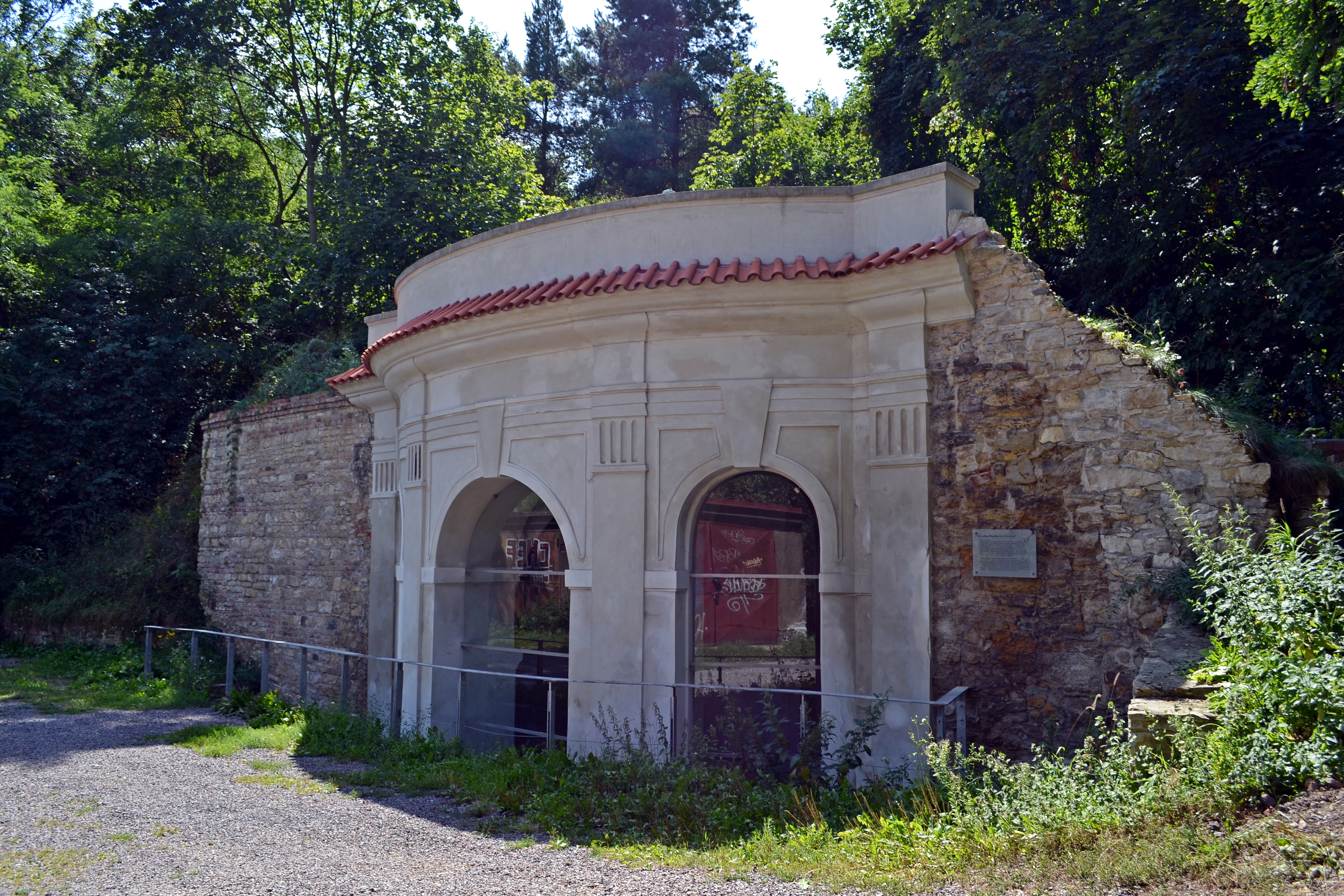 Sala terrena of the house Popelka, Smíchov, Prague 5, Czech Republic.